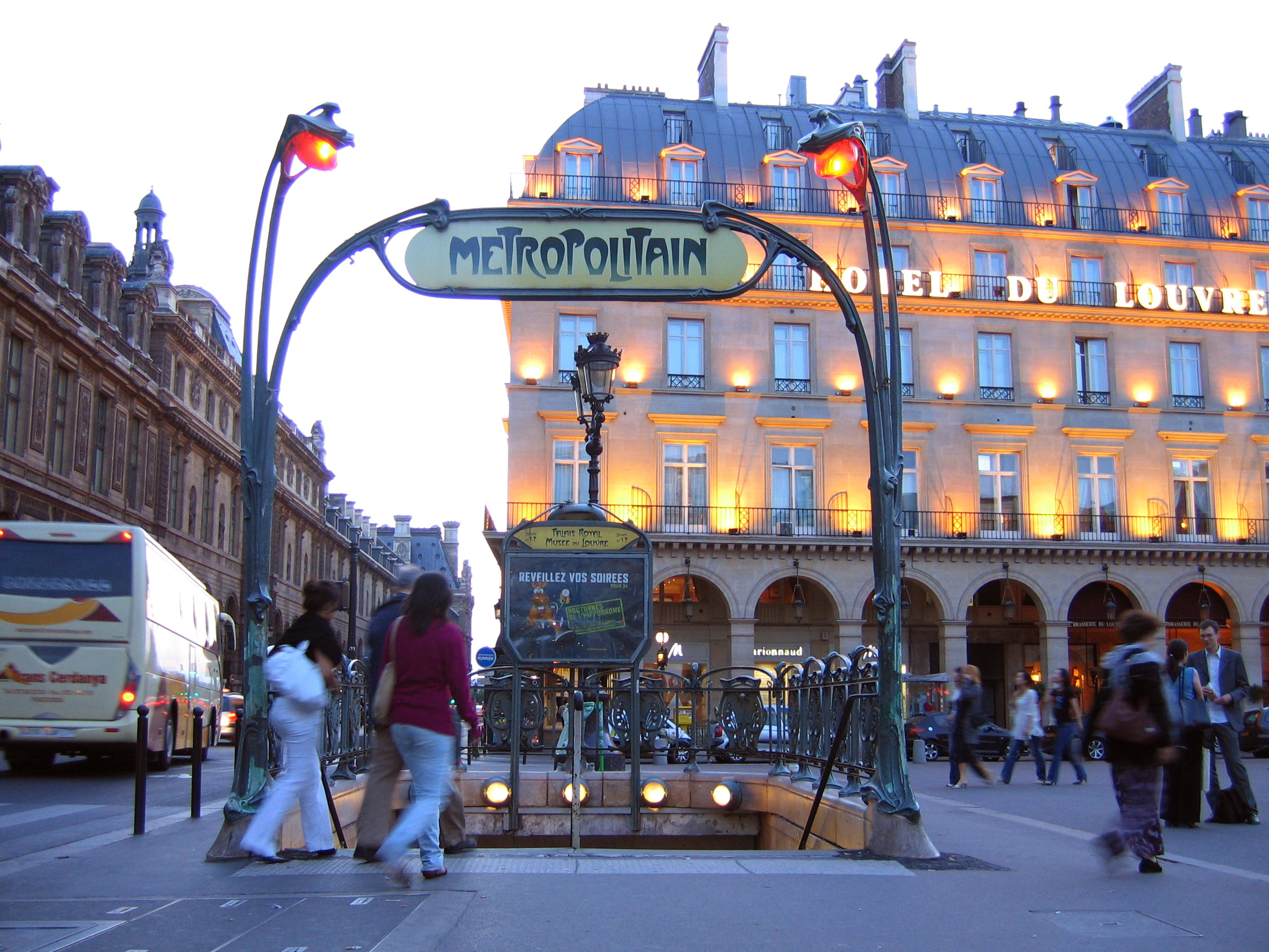 I was blown away by the entrances to the Paris métro, because we have one in Montréal as well.